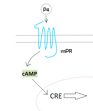 MPr example